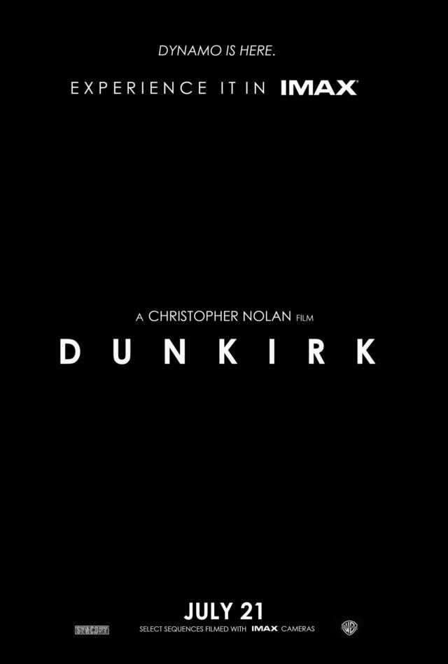 Dunkirk 2017